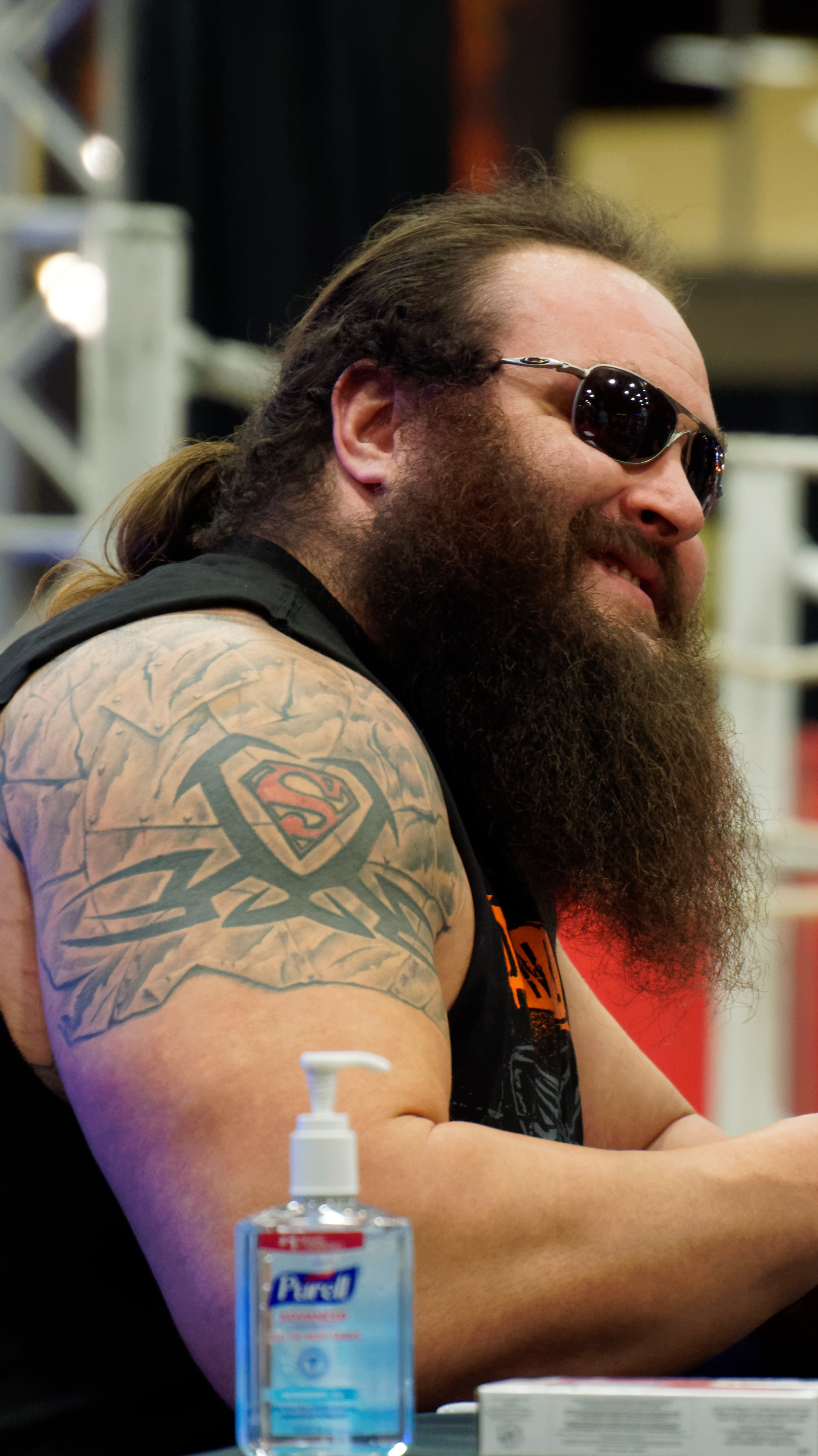 WrestleMania Axxess takes over the Kay Bailey Hutchison Convention Center in Dallas March 31-April 3. Featuring Superstar and Diva meet-and-greets, memorabilia displays and much more, WrestleMania Axxess is one event WWE fans of all ages will want to be part of. Don't miss out!